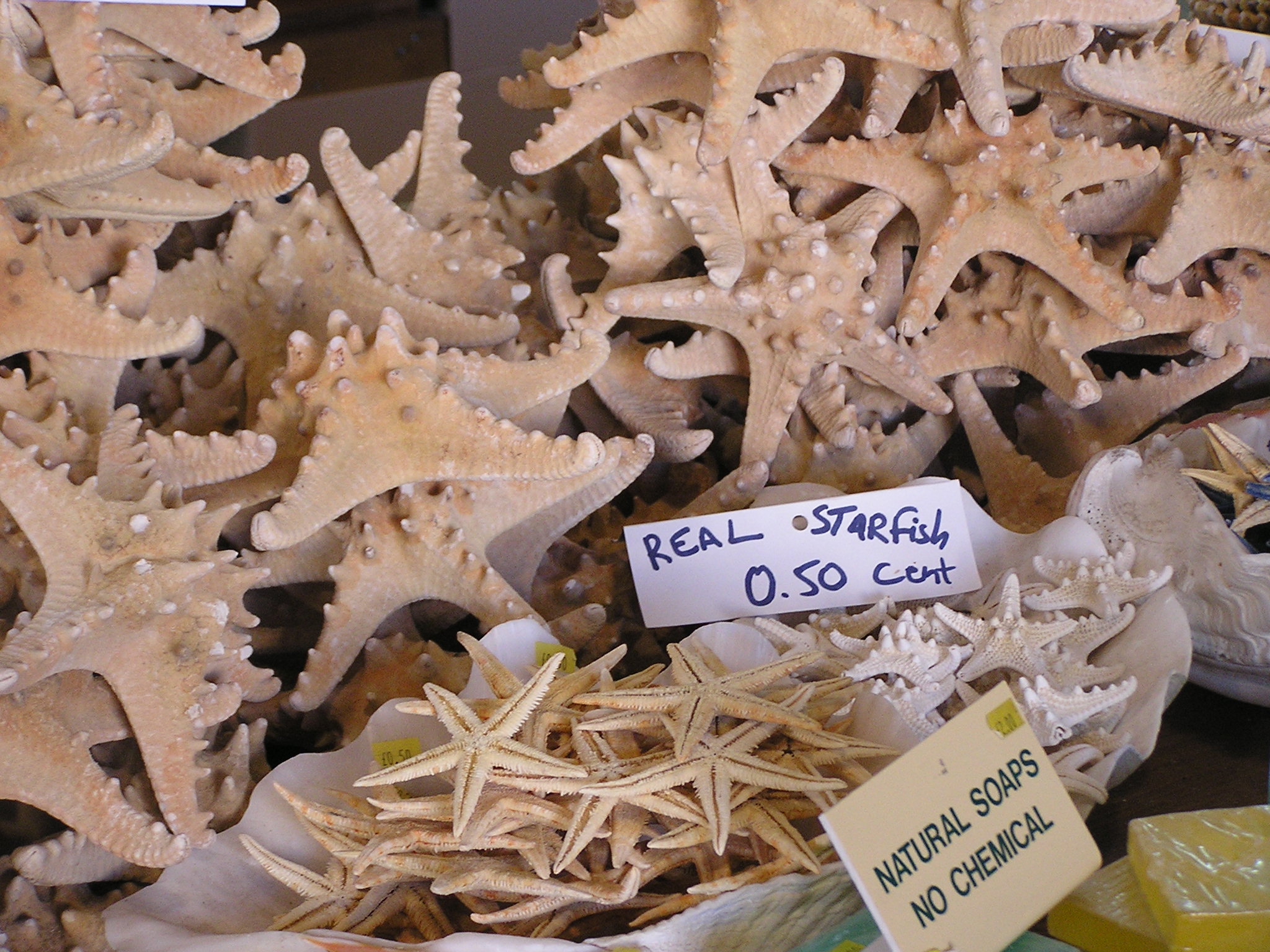 Starfish being sold in a market in Limassol, Cyprus, 2005